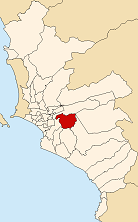 Map of the Lima Province highlighting the district of La Molina Created by User:StarbucksFreak - May 2005